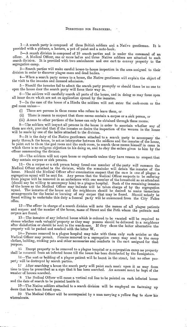 Directions for searchers, Pune plague of 1897.jpg